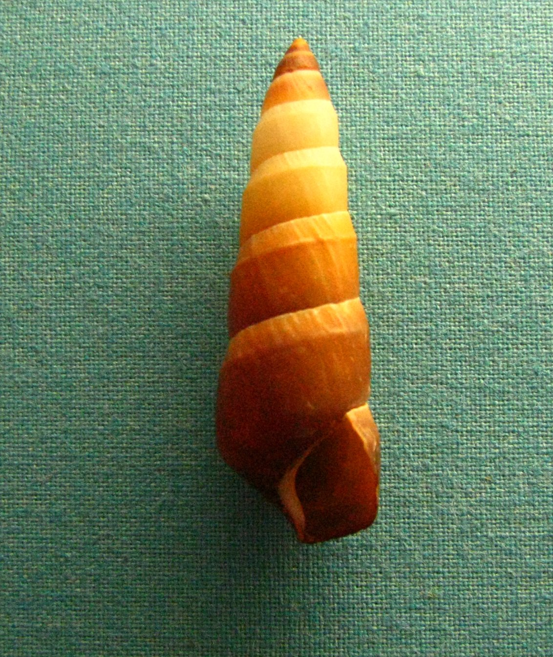 Amastridae Endemic to the Hawaiian Islands; Extinct Bishop Museum, Honolulu, Hawaiʻi